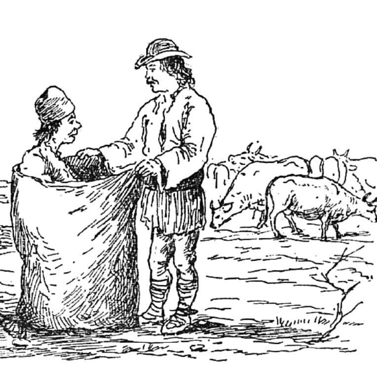 Illustration to a Romanian folk story. The hero-trickster Păcală has been captured in a burlap sack and is due to be drowned by the villagers he has angered. Here, he smooth-talks the ignorant cowherd into switching places with him.